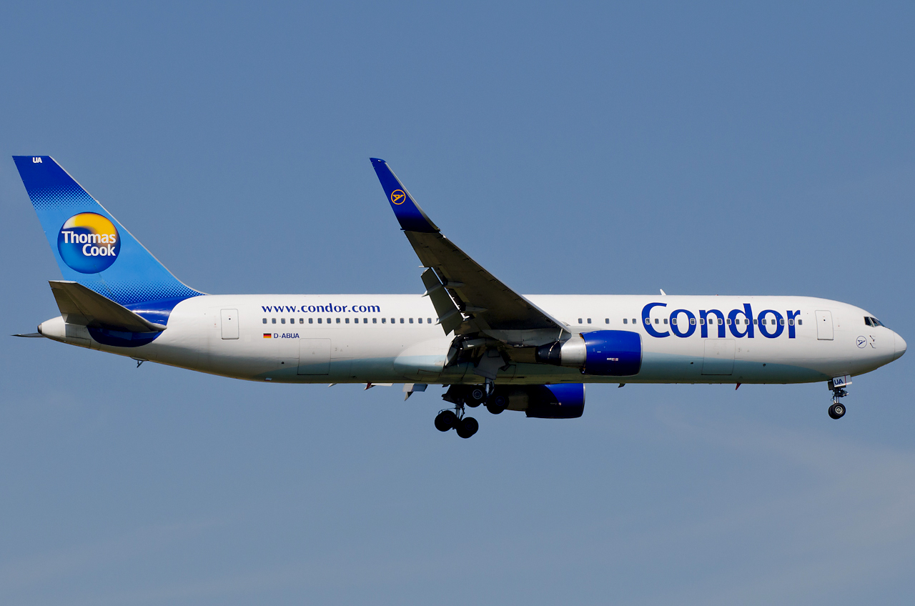 Approach to Frankfurt Intl. Airport.